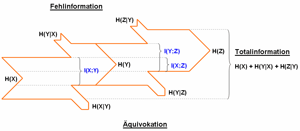 Informationstheorie - Entropie; information theorie - entropy